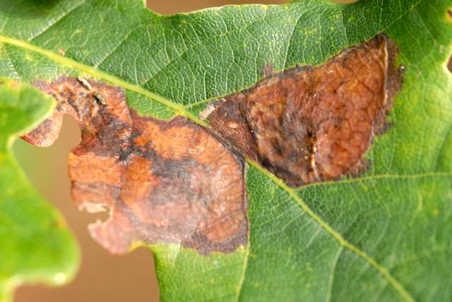 Ectoedemia albifasciella from Commanster, Belgian High Ardennes .